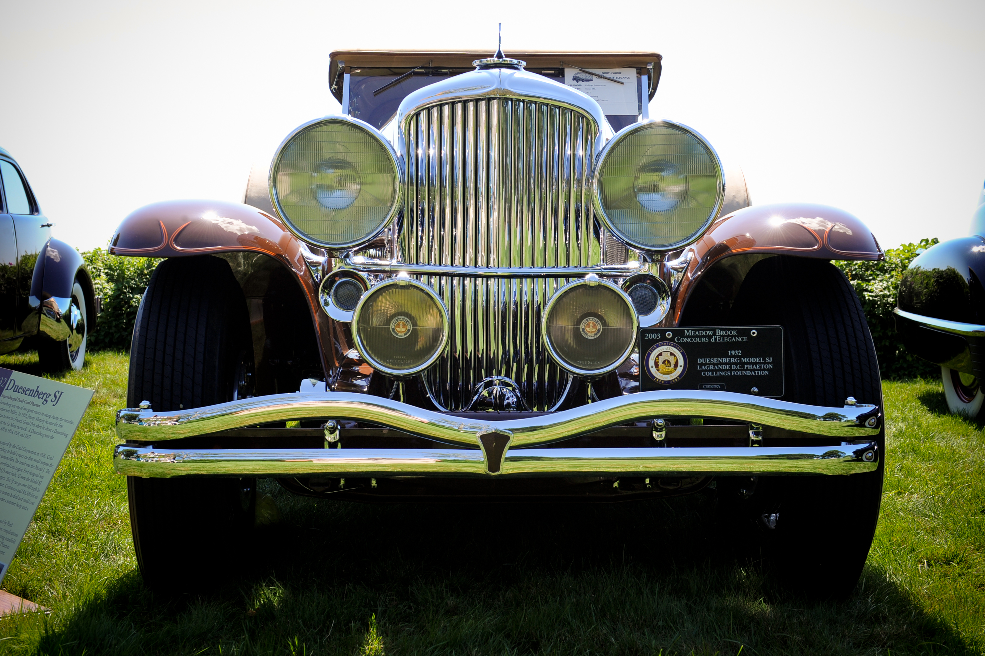 Winner of the 2011 Misselwood Concours d'Elegance, a 1932 Duesenberg SJ Dual Cowl Phaeton